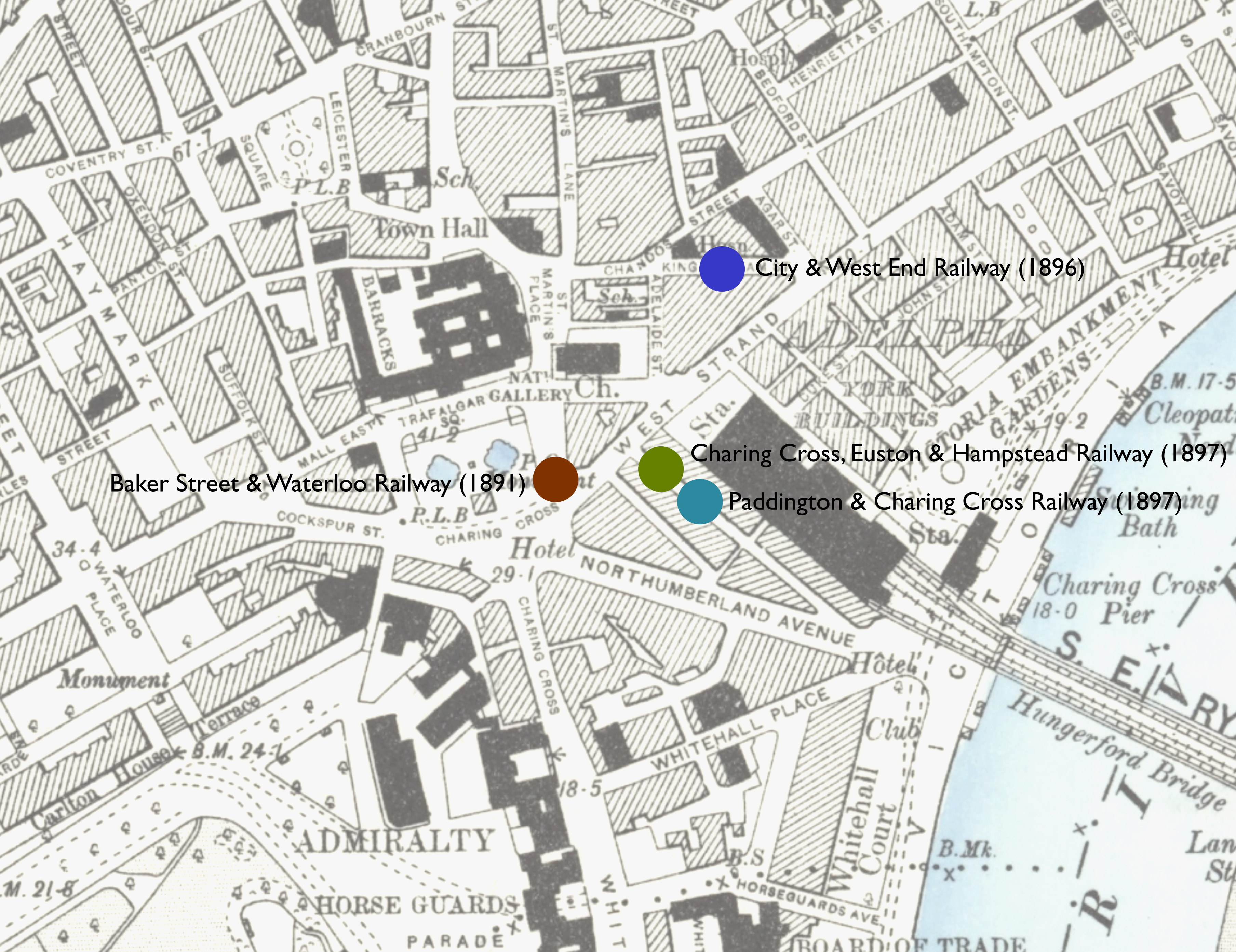 Map showing locations of stations proposed in the 1890s in parliamentary bills for underground stations in the Charing Cross area.